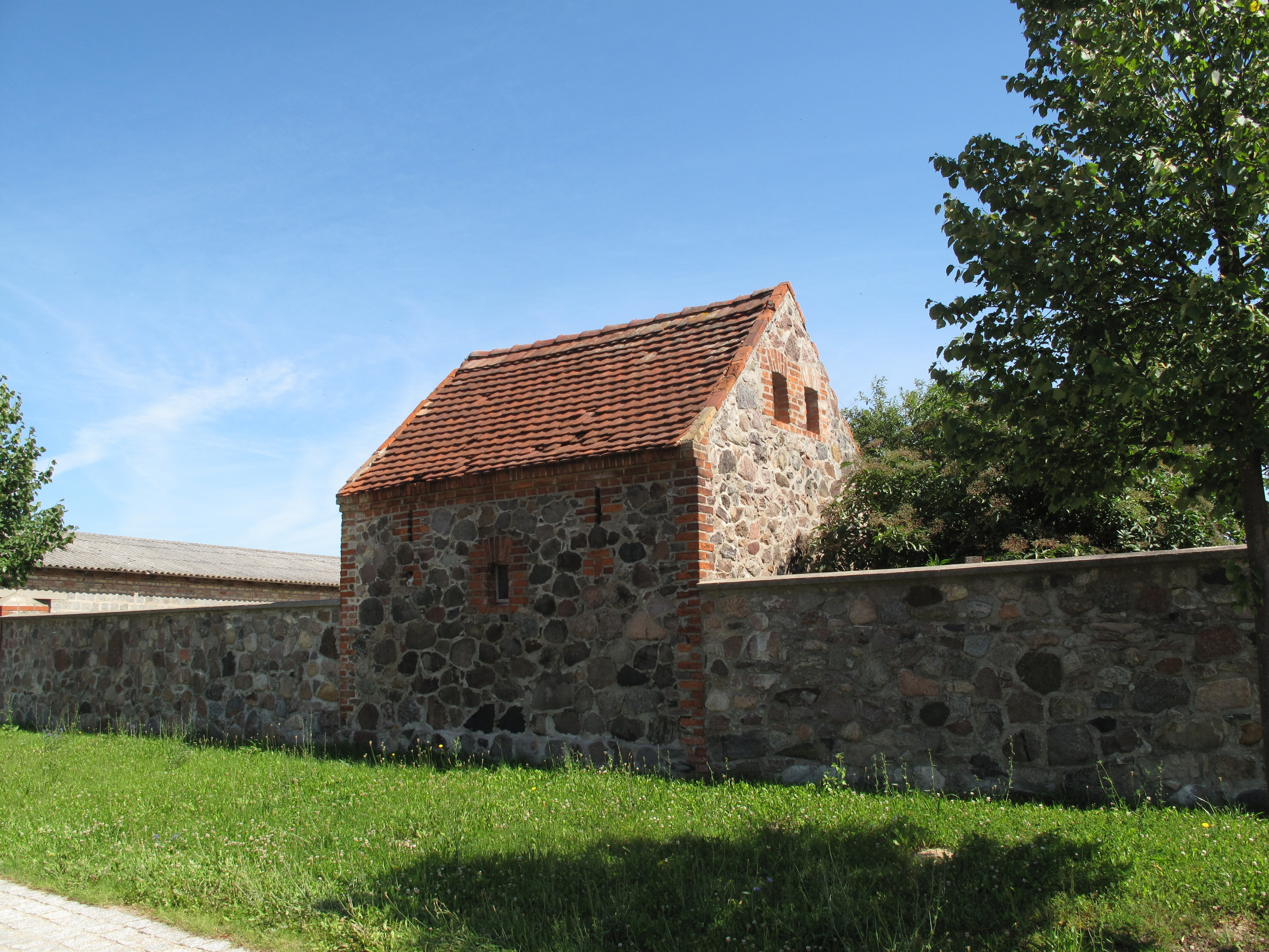 Fieldstone-wall in Pritzhagen. Pritzhagen is a village of the municipality Oberbarnim in the District Märkisch-Oderland, Brandenburg, Germany. It is situated in the Märkische Schweiz Nature Park. The village green with its pond and the perimeter fieldstone-walls was extensively renovated in 2004.